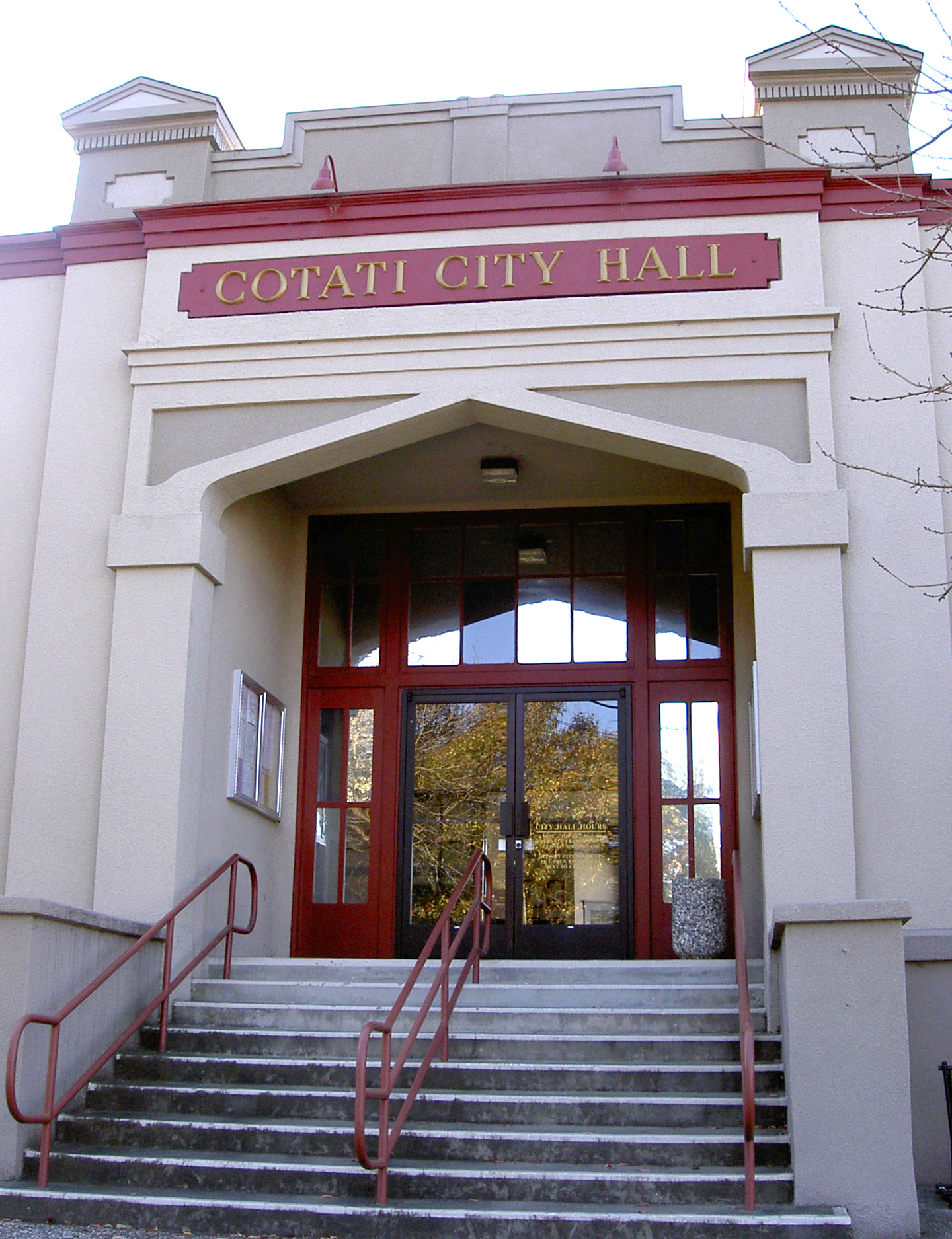 Extracted from a photo of Cotati City Hall taken by Stephen Gold on November 29, 2007. Cropped and level-adjusted using Photoshop Elements.